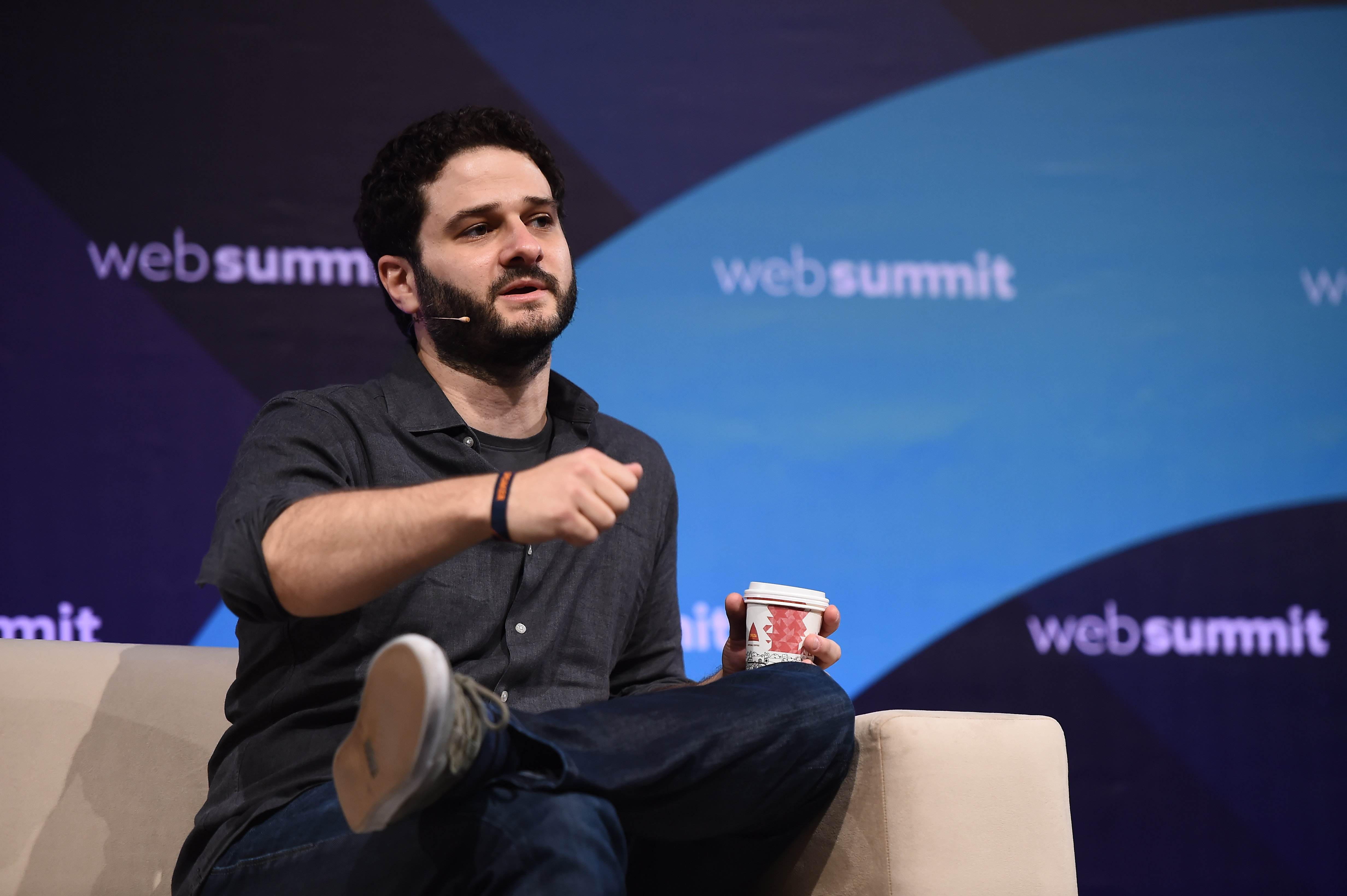 7 November 2017; Dustin Moskovitz, Co-Founder & CEO, Asana, on SaaS Monster Stage during the opening day of Web Summit 2017 at Altice Arena in Lisbon. Photo by Seb Daly/Web Summit via Sportsfile